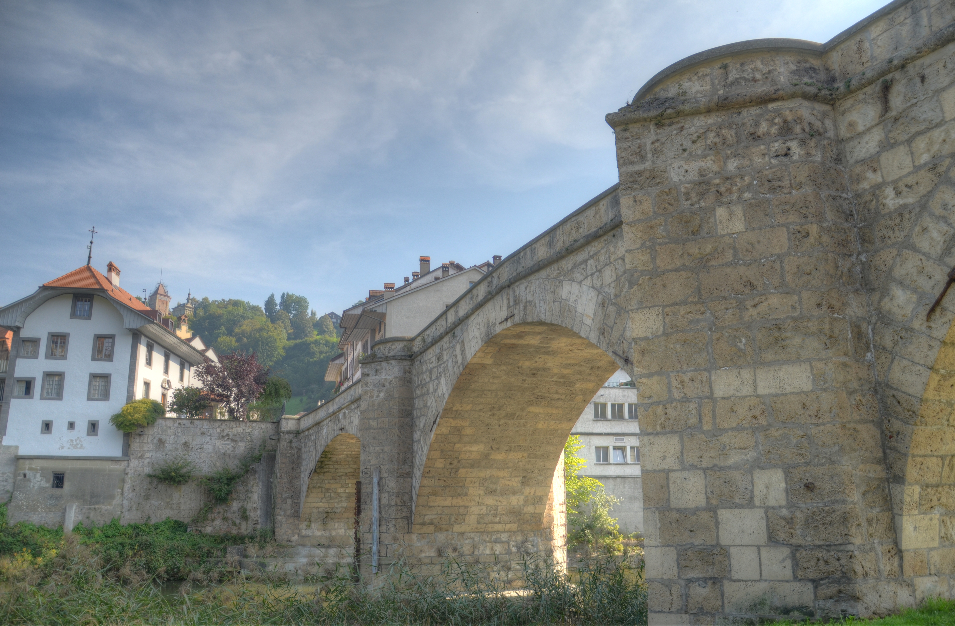 Pont de St. Jean mit der Loreto-Kappele im Hintergrund